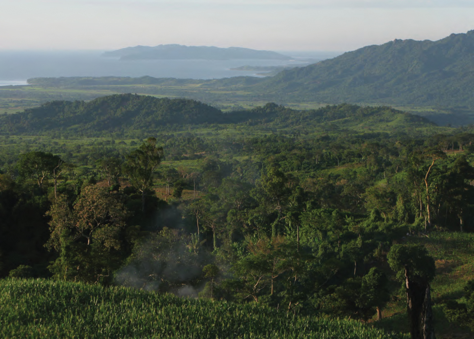 View of the northeast coast of Luzon from the foothills of Mt. Cagua, Municipality of Gonzaga. Note northern end of the Sierra Madre at right and Palaui Island in the background to the right. Photo: RMB.